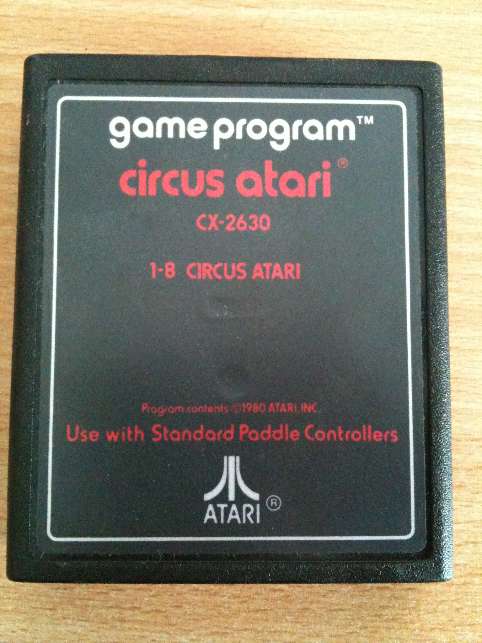 Atari 2600 Cartridge of the game Circus Atari